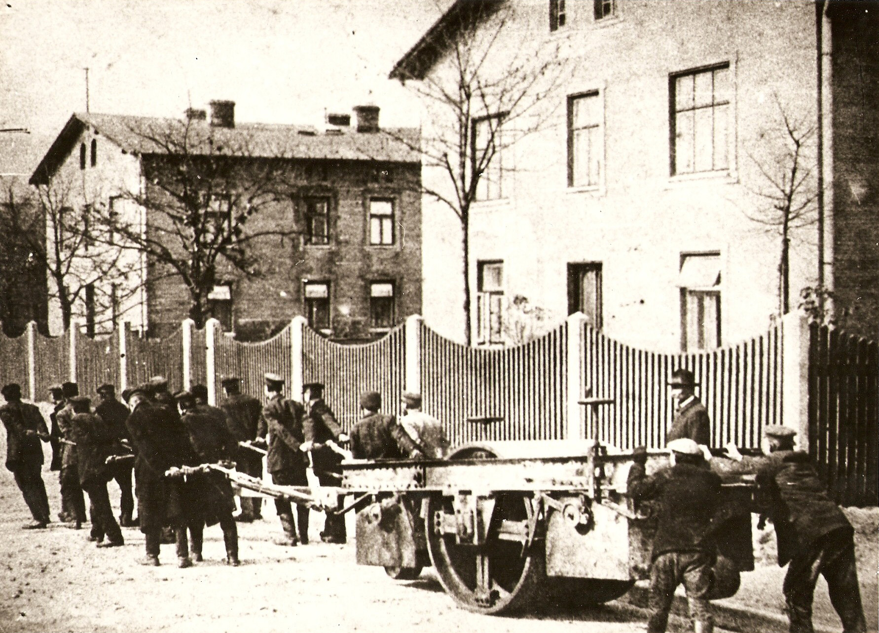 Compaction of one of the avenues in the workers' estate of TAZ, Zawiercie - early 20th century